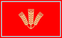 Flag of Sahnovschinskyj district (Ukraine)